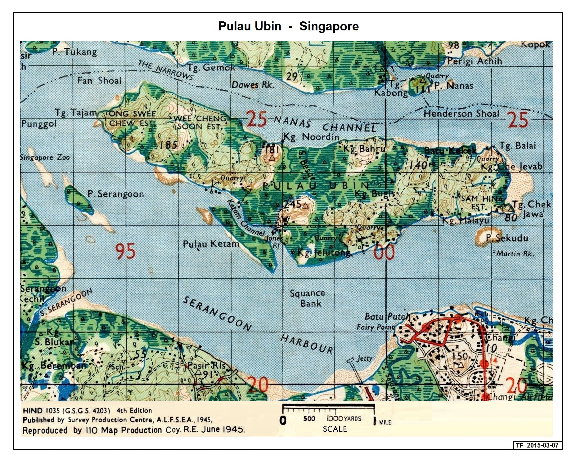 Extract from map of Singapore Island - 1945